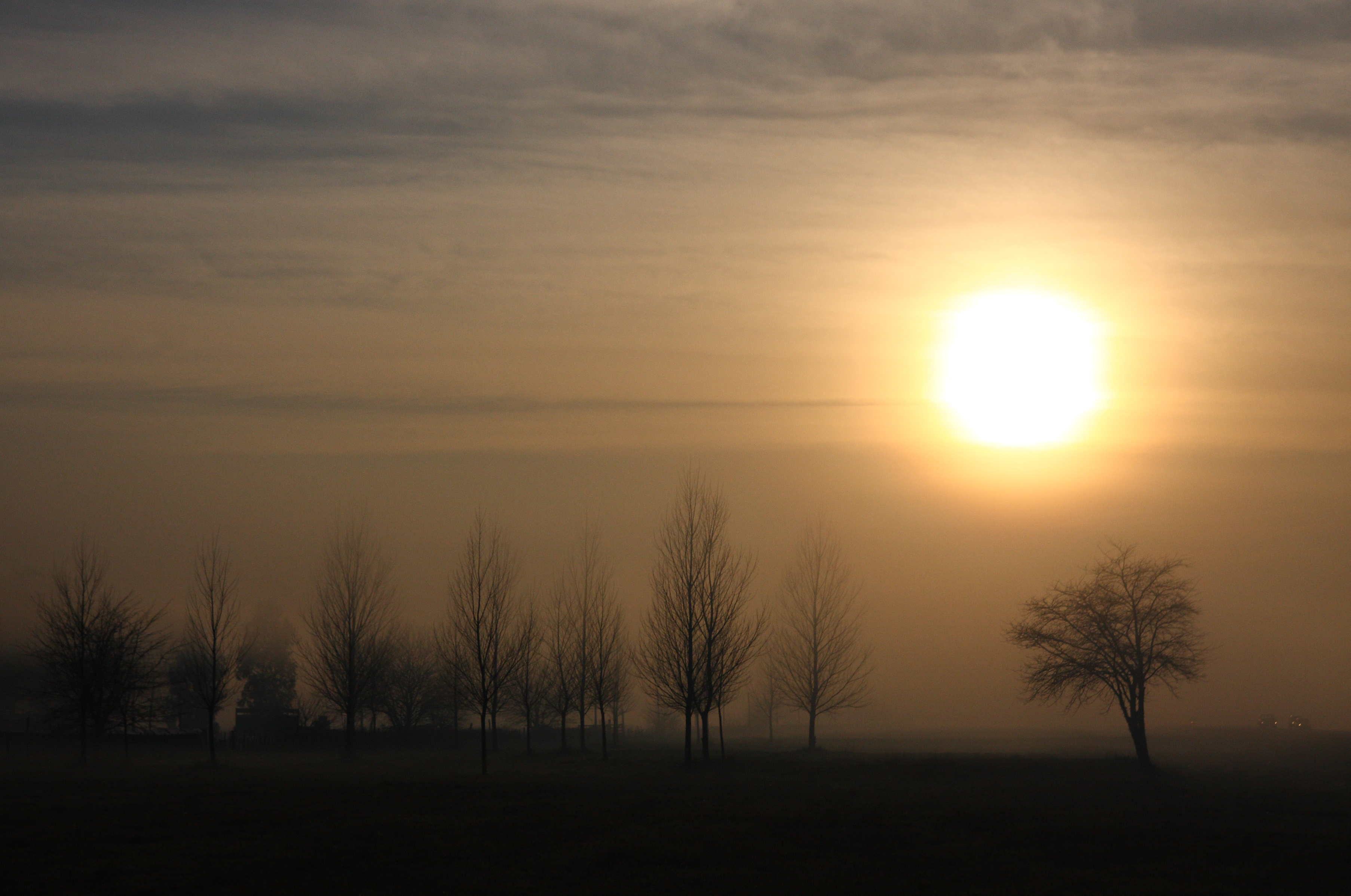 A very foggy winter morning with the sun just making it thru the mist. Lobos, Argentina.